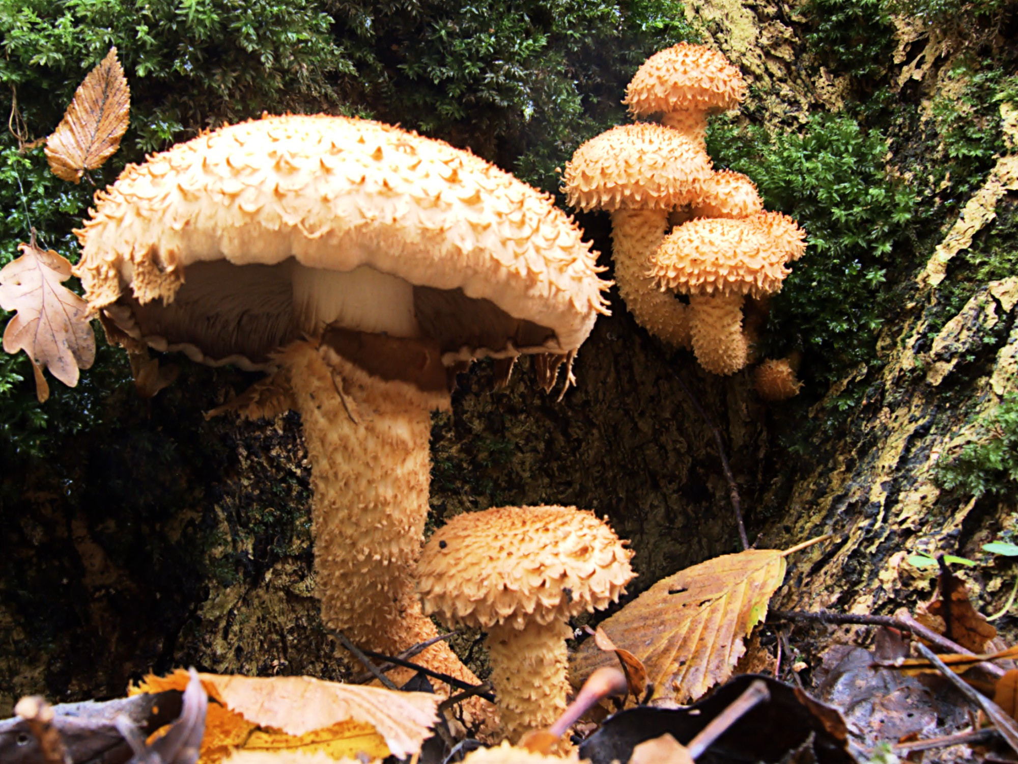 Name: Pholiota squarrosa. Family: Strophariaceae. Location: Münster, NRW, Germany